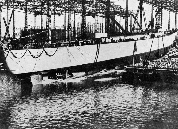 Bismarck (German Battleship, 1940-41) Sliding down the launching ways at the Blohm & Voss shipyard, Hamburg, Germany, 14 February 1939.